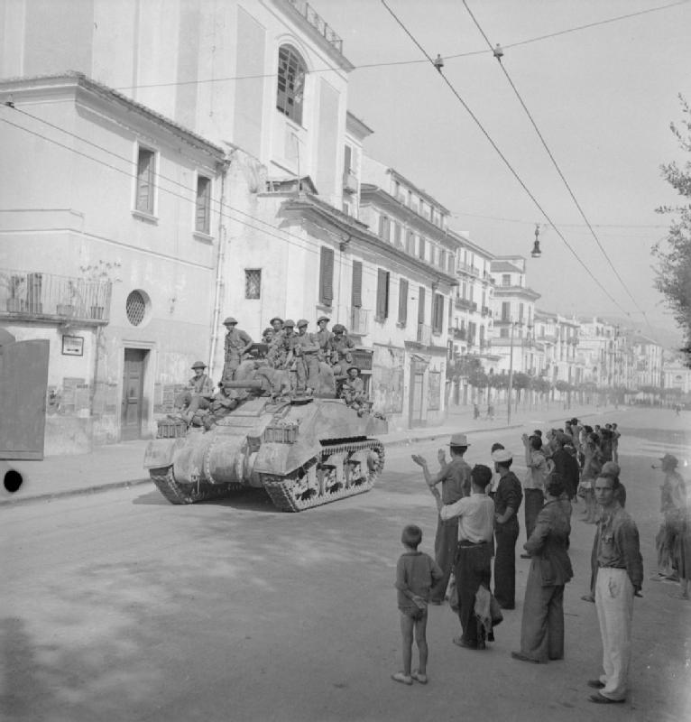 The British Army in Italy 1943 A Sherman tank loaded with infantry is cheered by local people as it passes through Salerno, 10 September 1943.